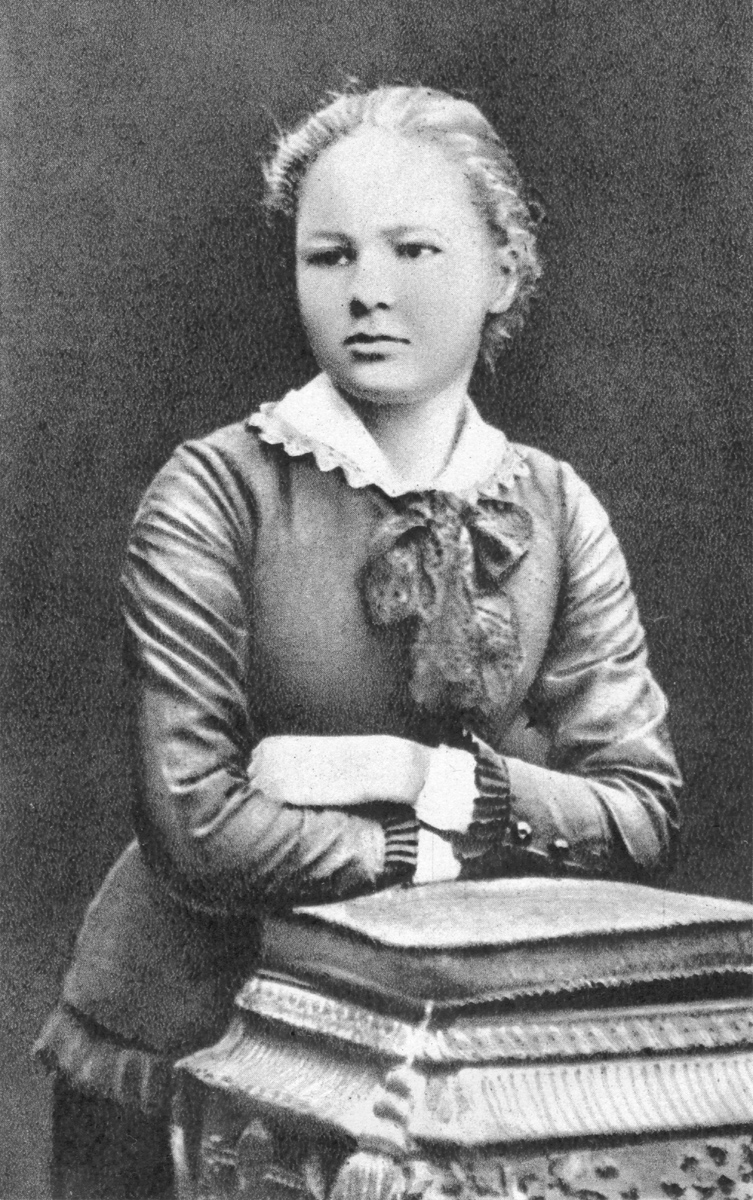 Marie Skłodowska (Madame Curie) in her 16th year of life